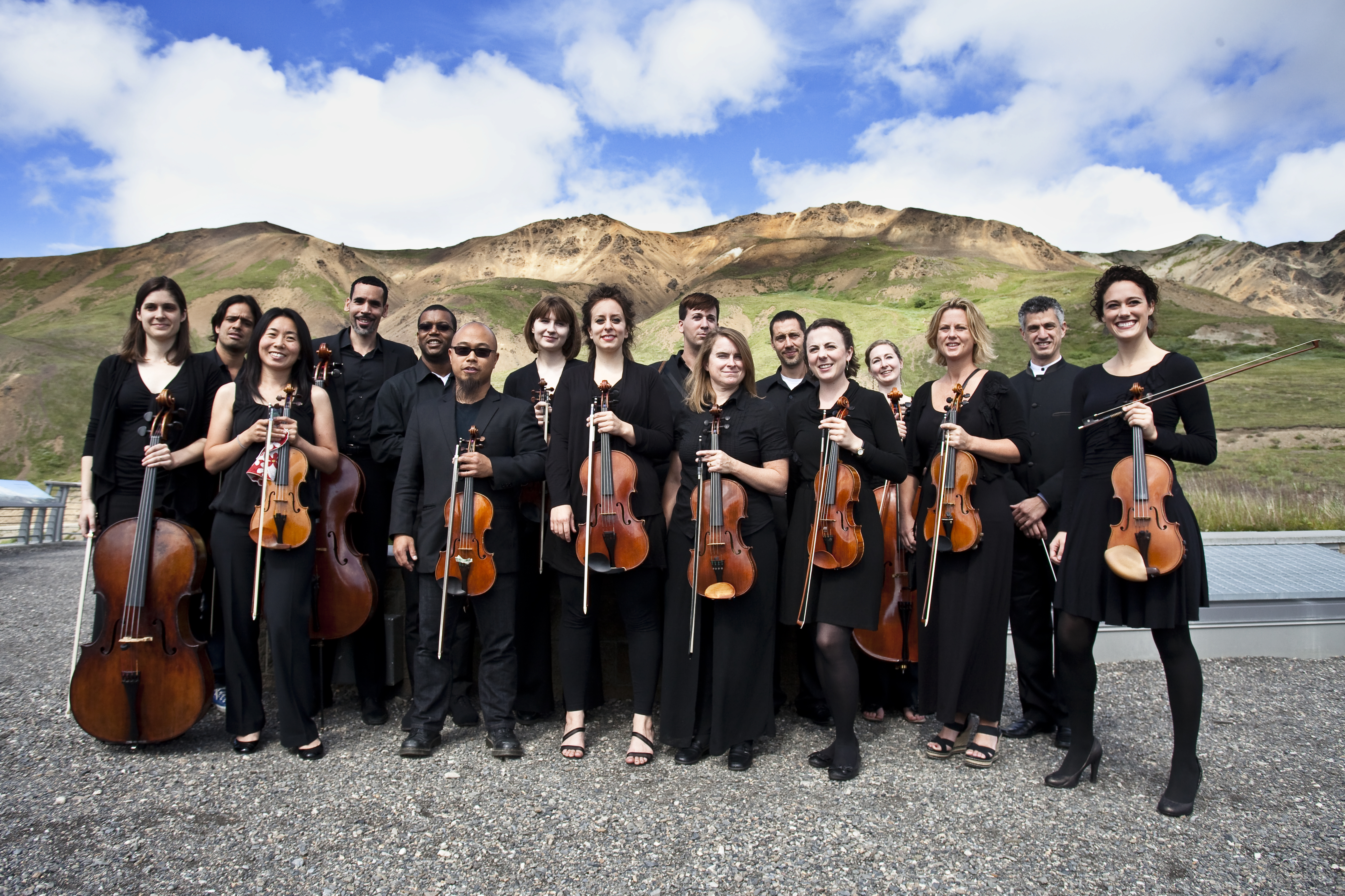 Denali Music Festival- NPS Photo Jacob W. Frank